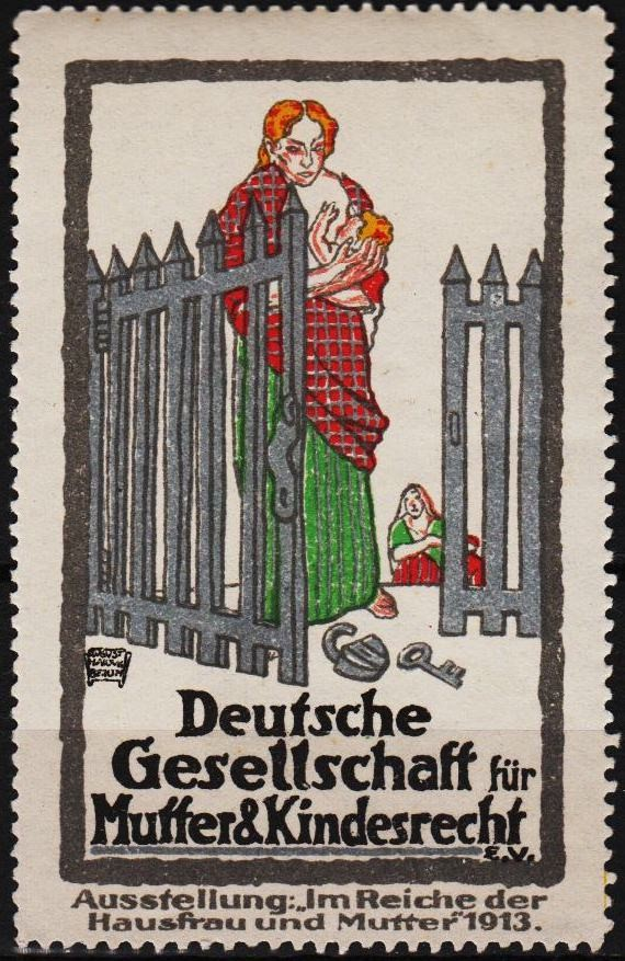 Poster stamp ...